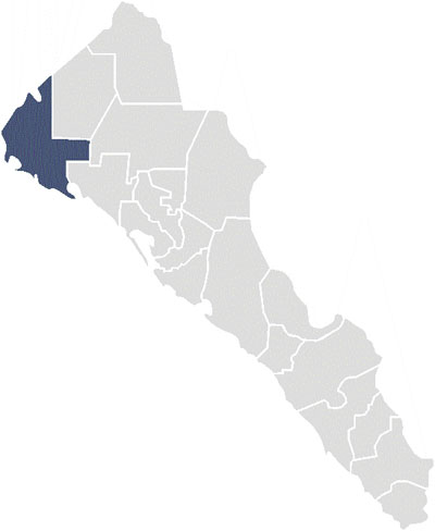 Map of the Second Federal Electoral District of the State of Sinaloa, México.